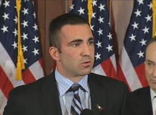 Iraq War veteran and co-founder of Jon Soltz, in a press conference with Democratic members of the United States Senate opposing Iraq War troop surge of 2007.